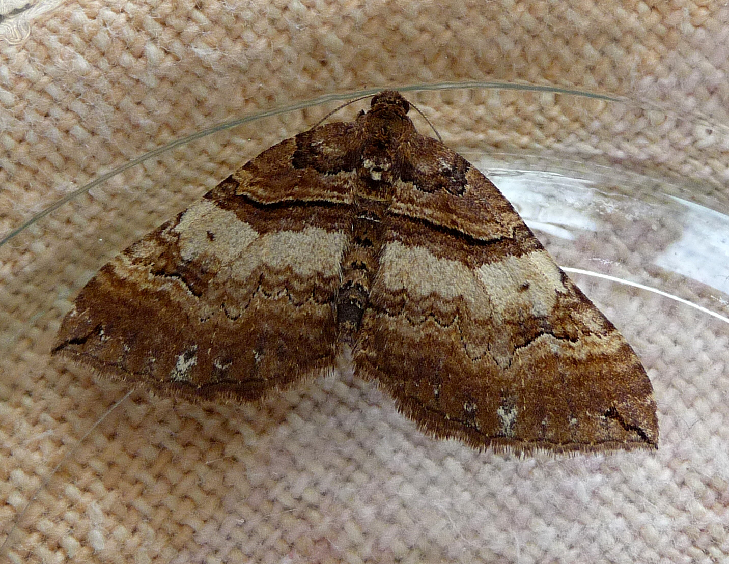 Shoulder Stripe. Anticlea badiata